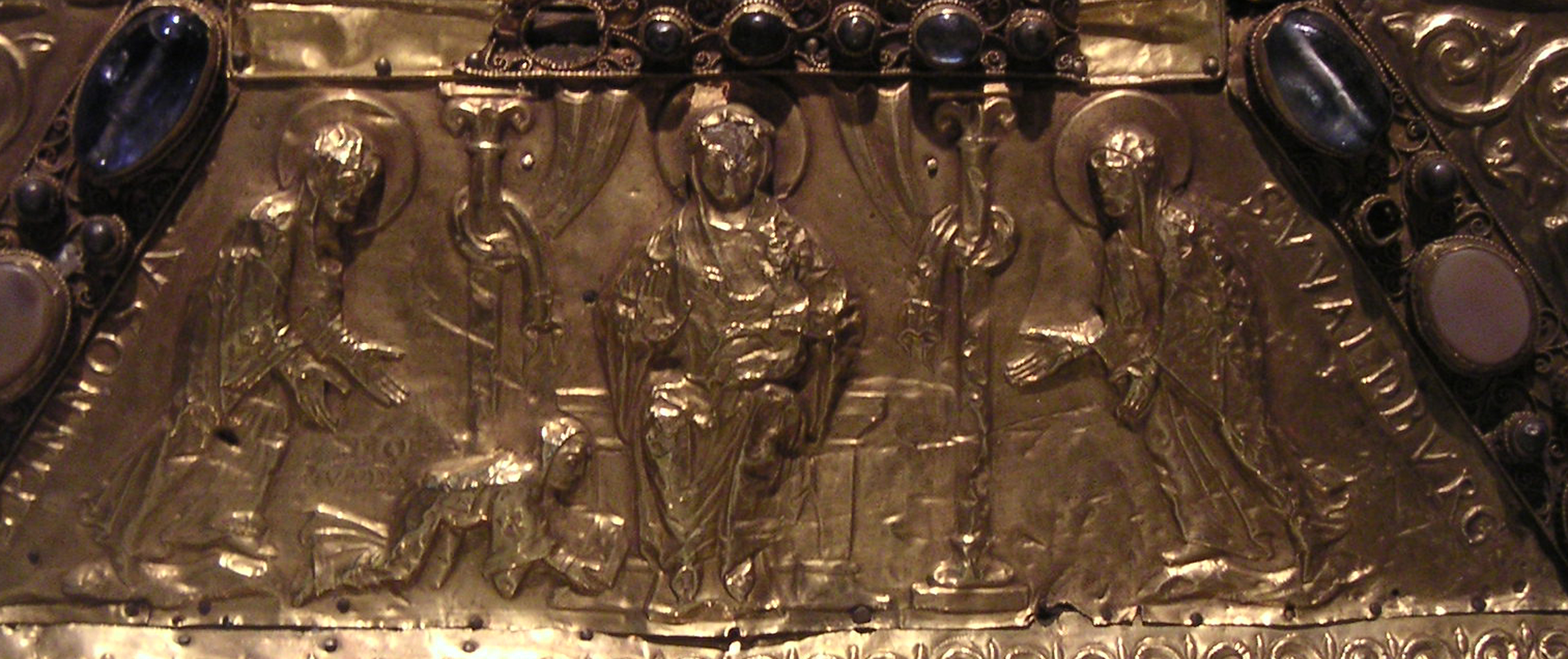 Cover of the Gospels of Abbess Theophanu (Essen Catherdral), mid 11th century, Detail: Abess Theophanu as donor